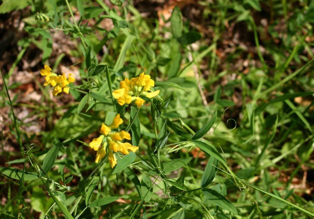 Lathyrus pratensis: Habitus. Col de la Schlucht, Alsace, France.